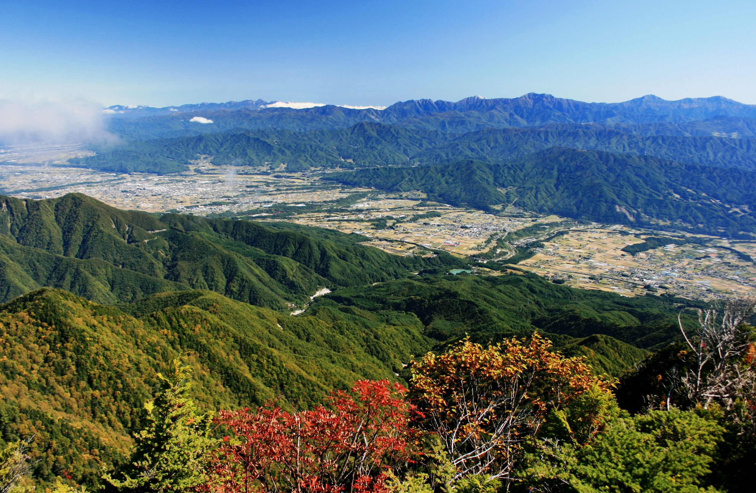 Ina Basin (Ina Vallry) and Akaishi Mountains from Mount Eboshi (Kiso Mountains), Nagano Prefecture, Japan.